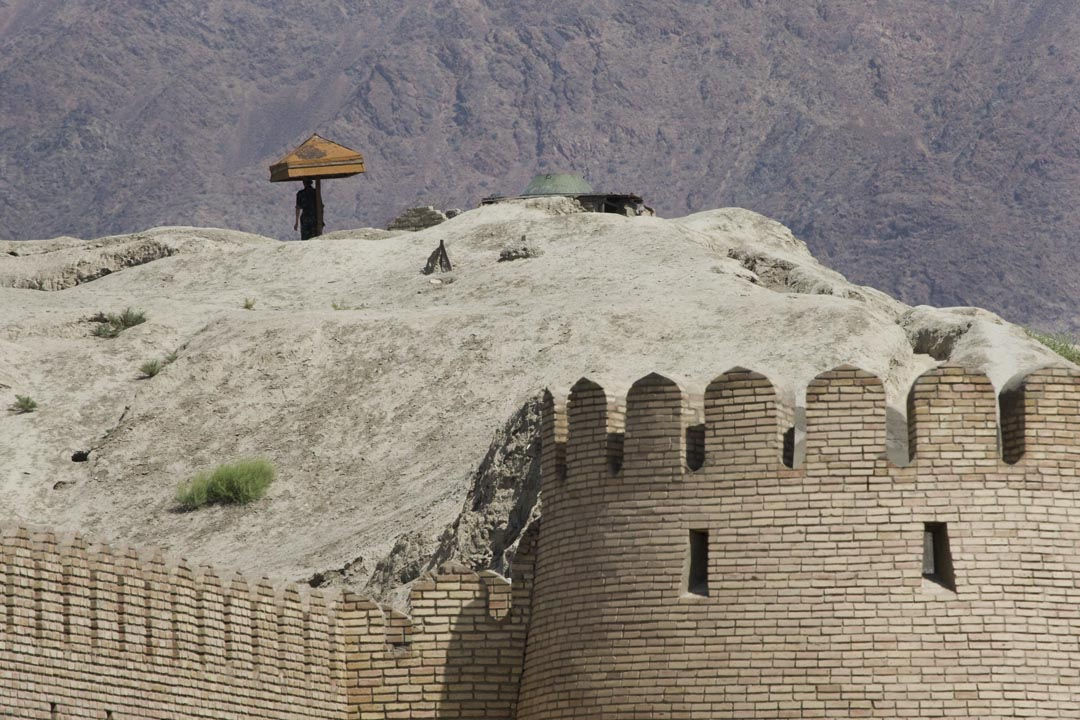 A soldier guards the restored ancient walls of the city that Alexander the Great built at Khujand, Tajikistan.